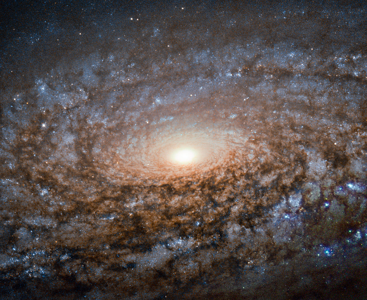 This new image of the spiral galaxy NGC 3521 from the NASA/ESA Hubble Space Telescope is not out of focus. Instead, the galaxy itself has a soft, woolly appearance as it a member of a class of galaxies known as flocculent spirals. Like other flocculent galaxies, NGC 3521 lacks the clearly defined, arcing structure to its spiral arms that shows up in galaxies such as Messier 101, which are called grand design spirals. In flocculent spirals, fluffy patches of stars and dust show up here and there throughout their discs. Sometimes the tufts of stars are arranged in a generally spiralling form, as with NGC 3521, but illuminated star-filled regions can also appear as short or discontinuous spiral arms. About 30 percent of galaxies share NGC 3521's patchiness, while approximately 10 percent have their star-forming regions wound into grand design spirals. NGC 3521 is located almost 40 million light-years away in the constellation of Leo (The Lion). The British astronomer William Herschel discovered the object in 1784. Through backyard telescopes, NGC 3521 can have a glowing, rounded appearance, giving rise to its nickname, the Bubble Galaxy.